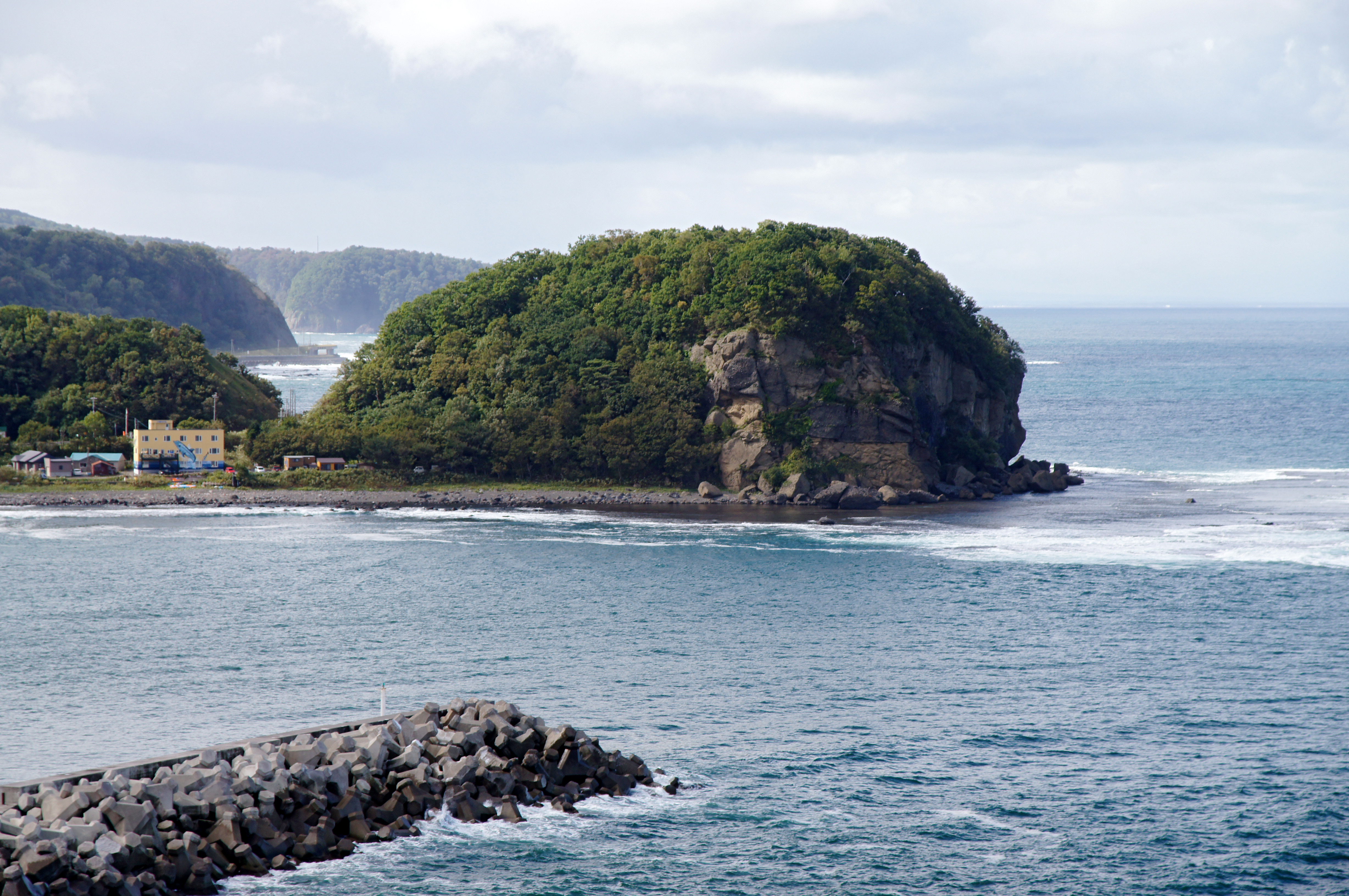 Cape_Chashikotsu in Shari, Hokkaido prefecture, Japan